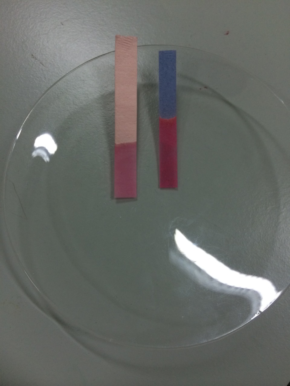 The effect of acid solution on red and blue litmus papers (The papers turn red).